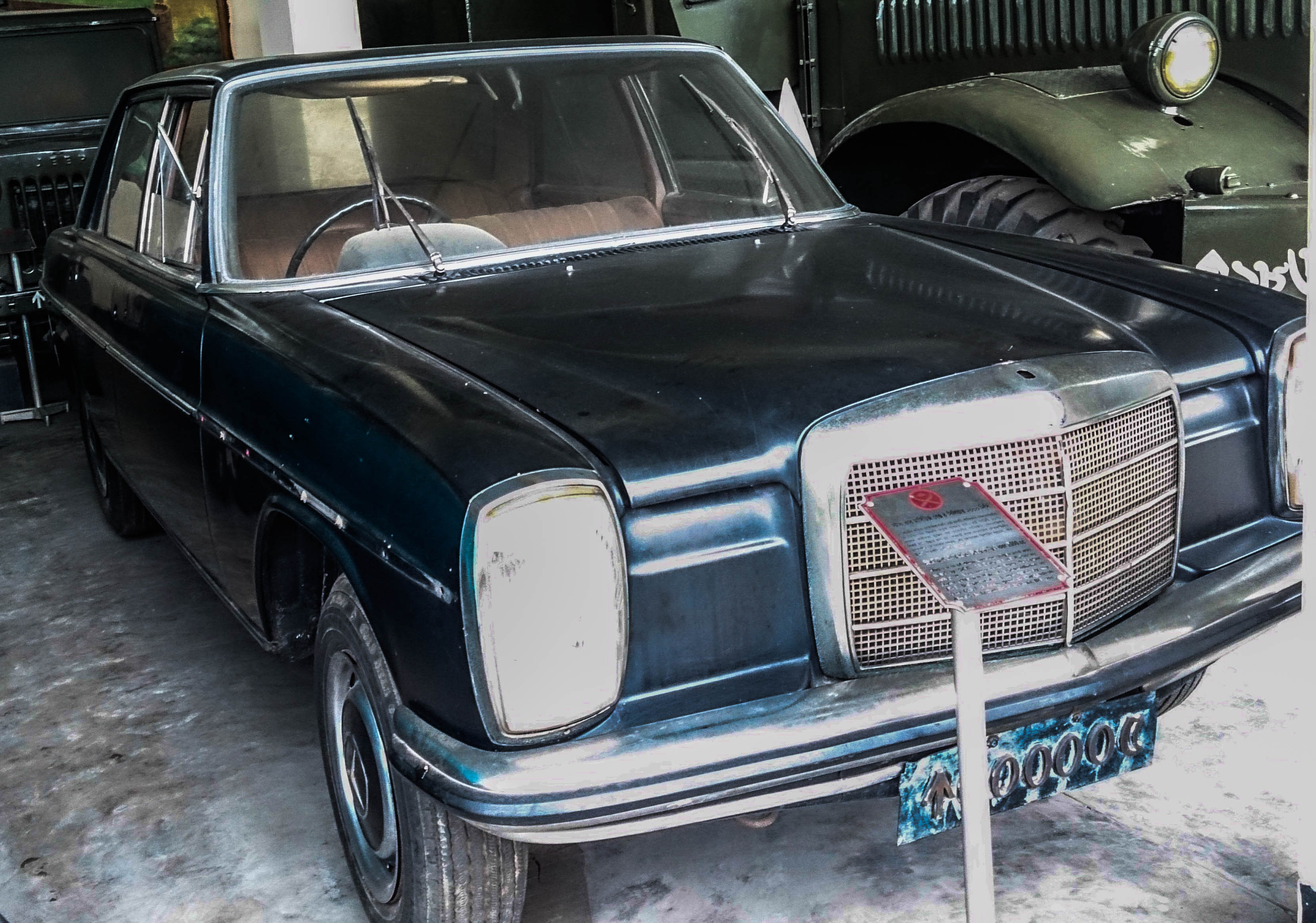 This car is of West Germany origin and was used by GOC, 14 division of Pakistan Army. It was recovered from Pakistan Army after the war of independence of Bangladesh in 1971. It was used by the then chief of army staff of Bangladesh Army late lt. gen. Ziaur Rahman, BU, PSC.